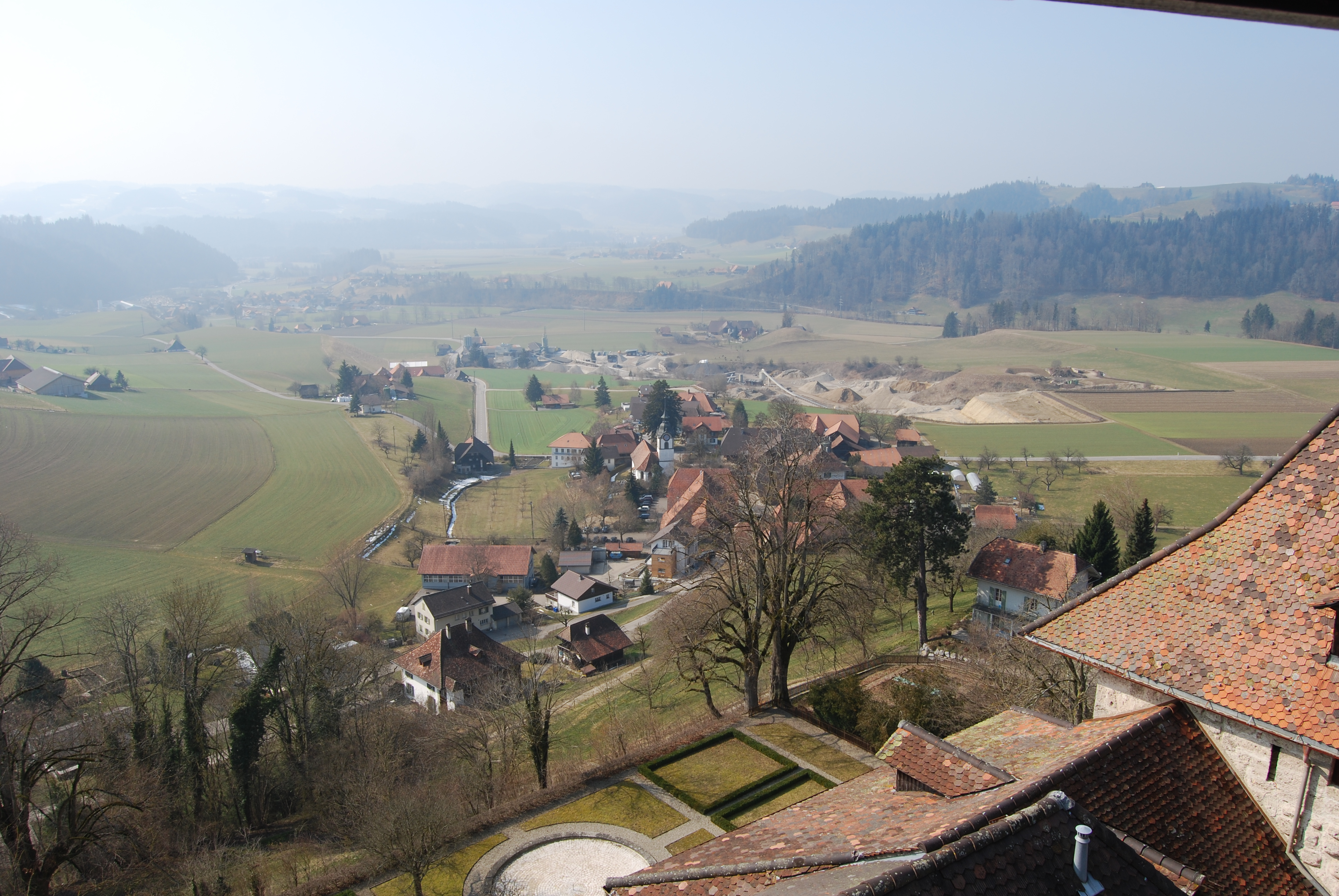 Trachselwald, canton of Bern, SwitzerlandEsperanto: Trachselwald, Kantono Berno, Svislando